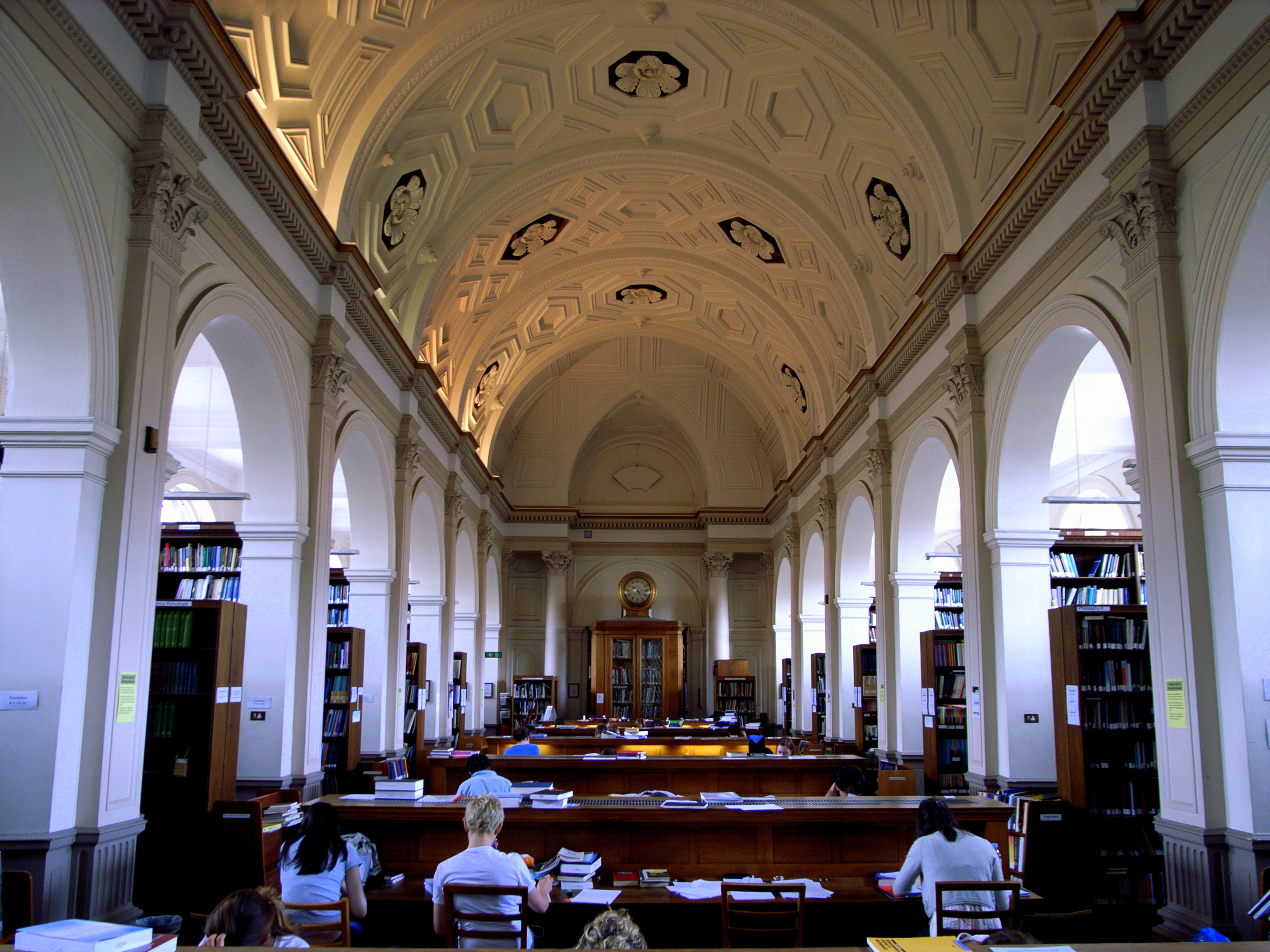 University College London's Donaldson Reading Room